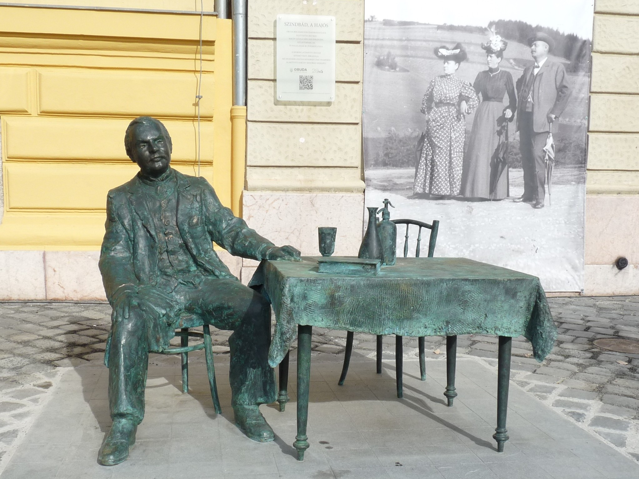 Statue of Sinbad, the hero of Gyula Krúdy’s short stories and novels in Óbuda. He has been impersonated by Zoltán Latinovits in the film „Szindbád” (1971). The life-size bronze statue sculpted by Péter Szanyi has been unveiled on October 21, 2013 in Óbuda next to the town-hall. (Budapest, District III, Fő Square)